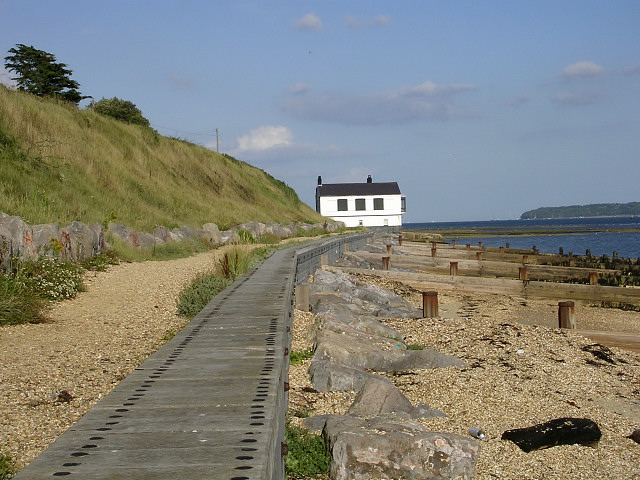 Sea defences west of the Watch House, Lepe. A view east along the coastal footpath towards the Watch House (which is in the neighbouring grid square). This portion of the Solent coastline is well defended, with groynes, boulders, a wall, and the bank is stabilised with a boulder revetment and netting.